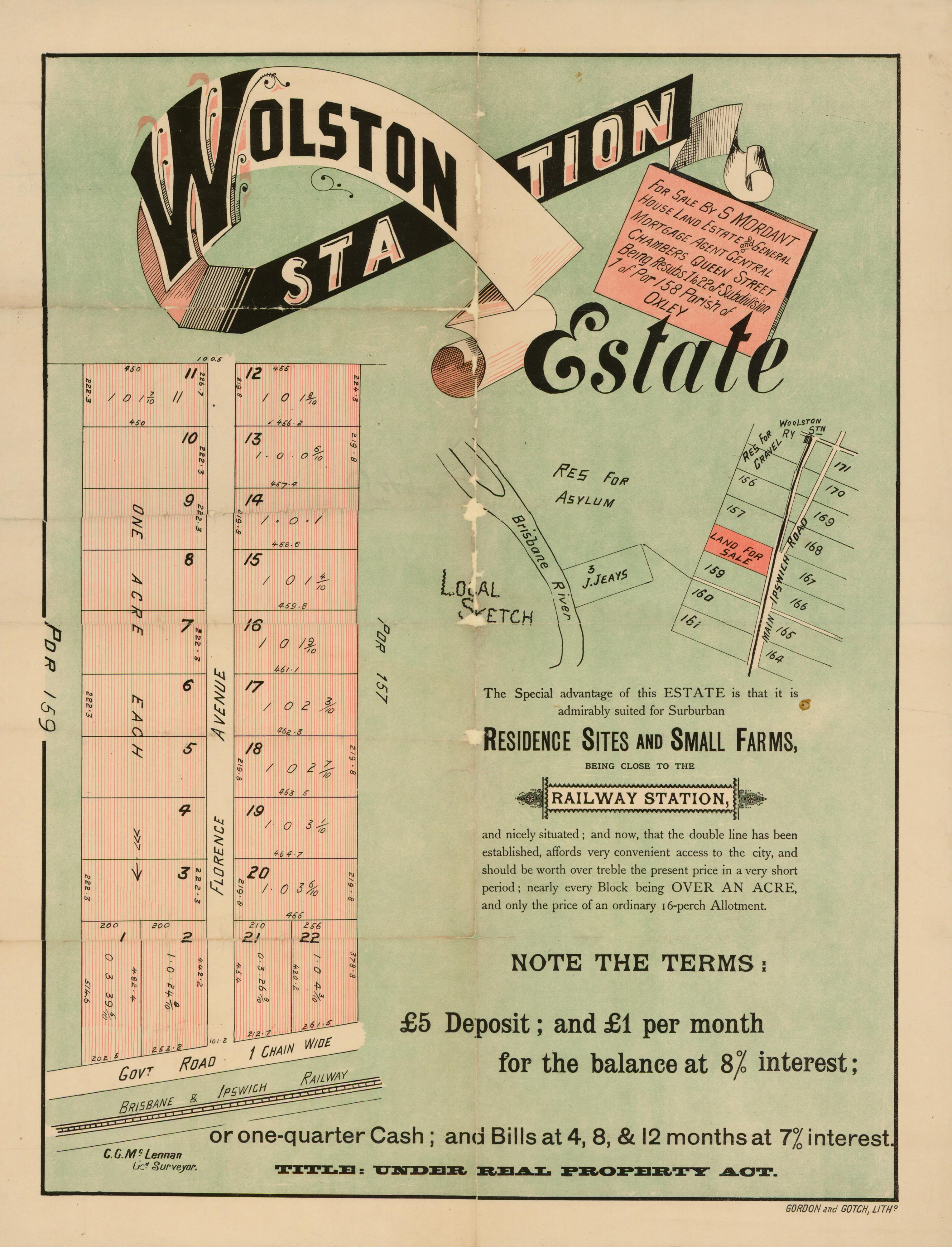 Creator: G. G. McLennan, lic. surveyor. Location: Wacol, Brisbane, Queensland. Description: "For sale by S. Mordant House Land Estate and General Mortgage Agent ... Being resubs 1 to 22 of subdivision 1 of Por 158 Parish of Oxley" Published by Gordon and Gotch lithographer (Brisbane). 90 x 57 cm. Map includes conditions of purchase and locality map. Read more about SLQ's map collections: View this image at the State Library of Queensland: Information about State Library of Queensland’s collection: You are free to use this image without permission. Please attribute State Library of Queensland.